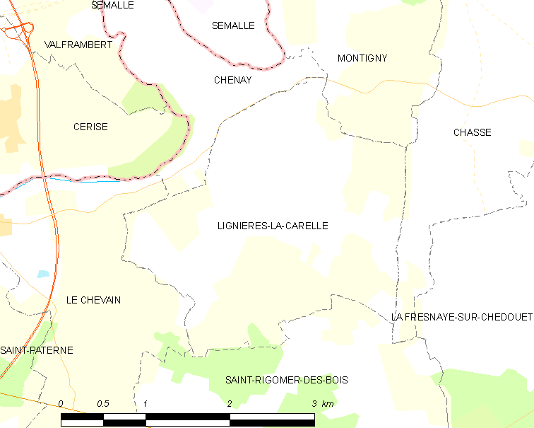 Map of French municipality